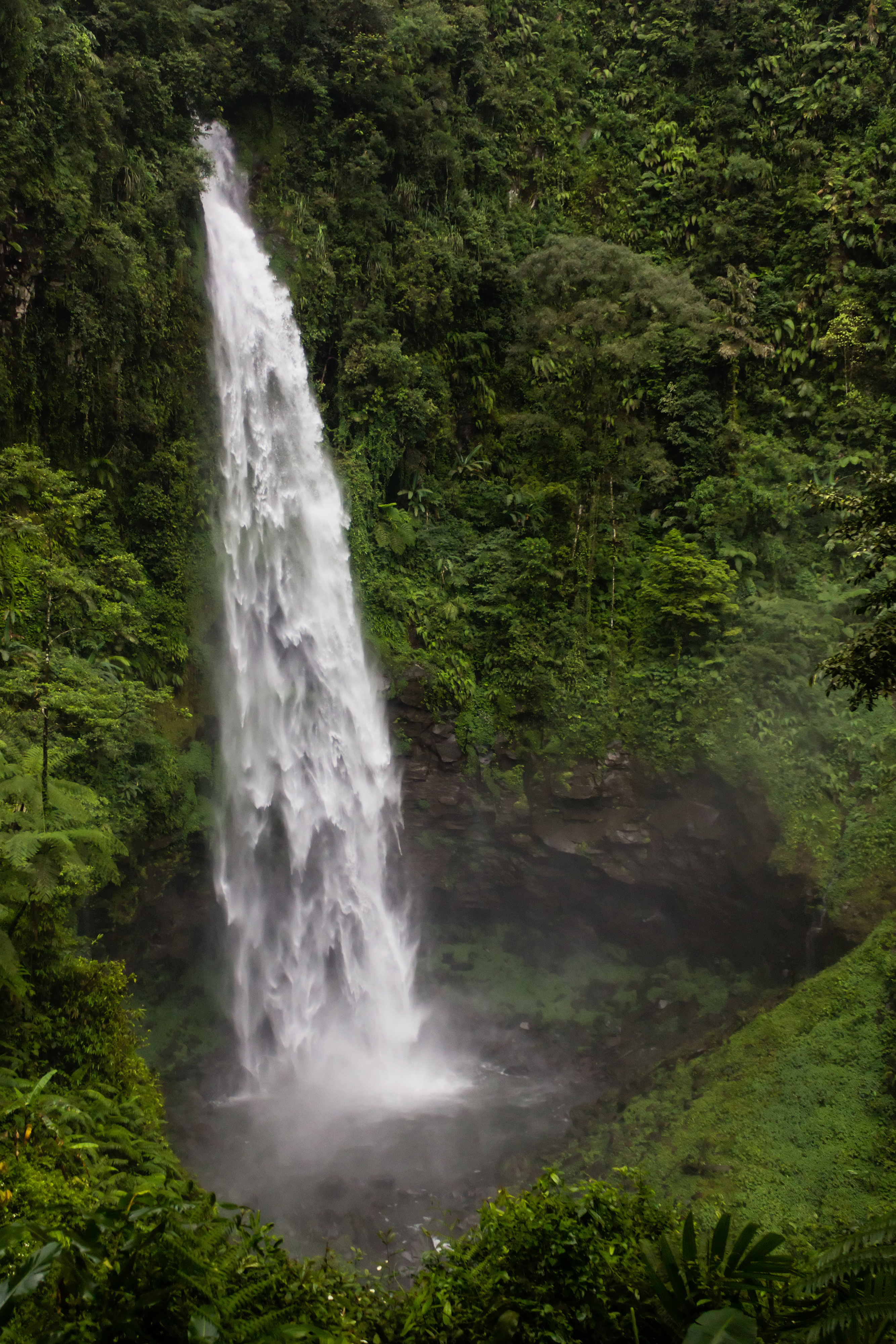 Curug Cipendok, Purwokerto, 2015-03-22